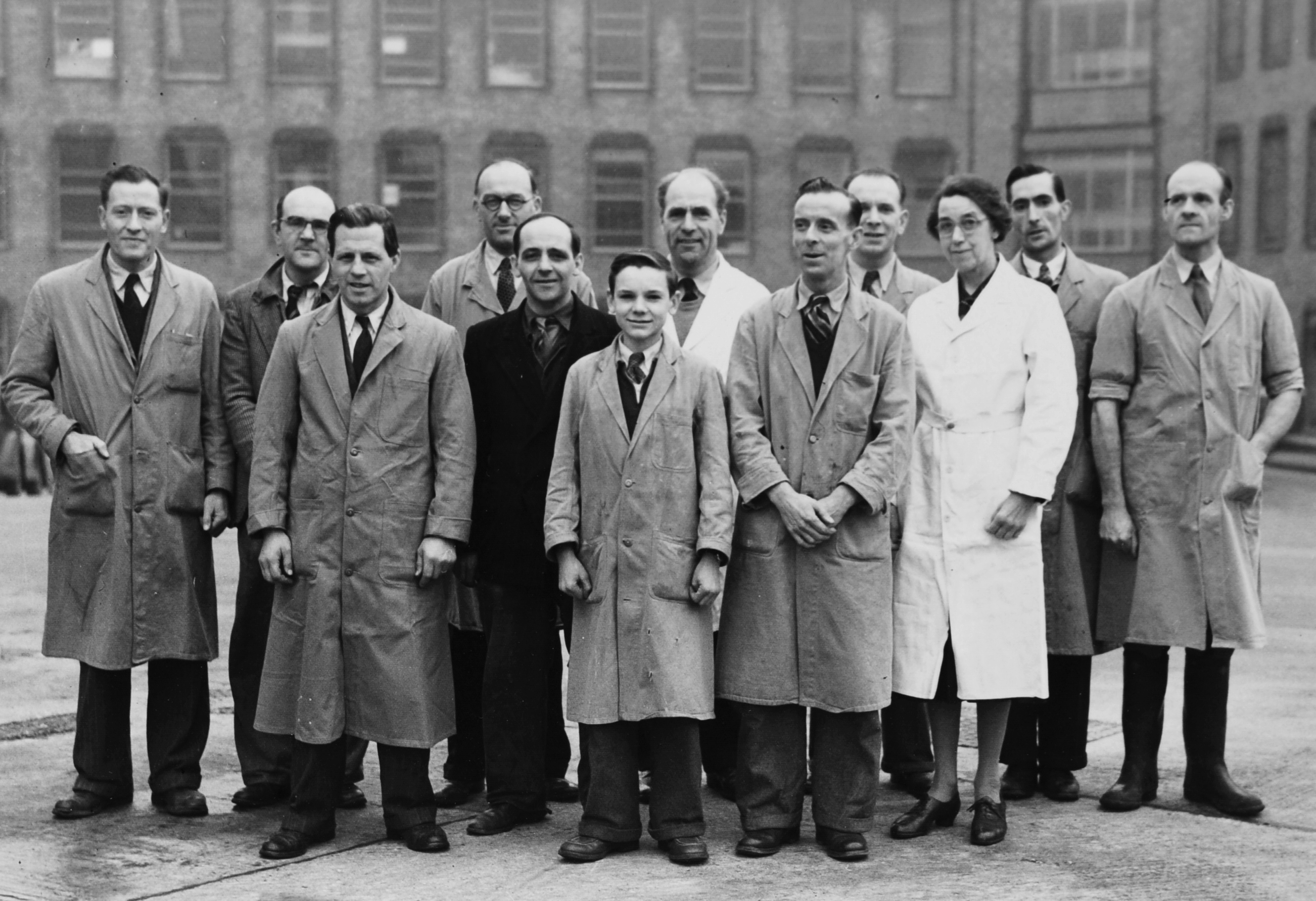 Technicians in the Animal Division at NIMR Mill Hill. Brown lab coats for male technicians, white lab coats for scientsits and women technicians, outside the MRC National Institute for Medical Research at Mill Hill